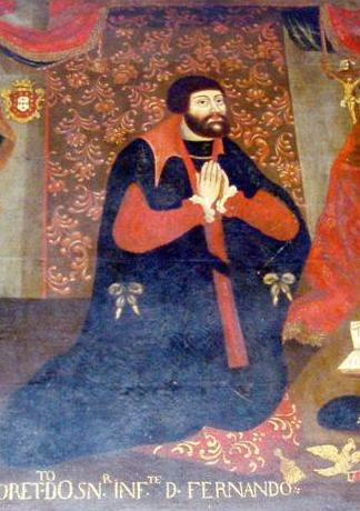 o duque